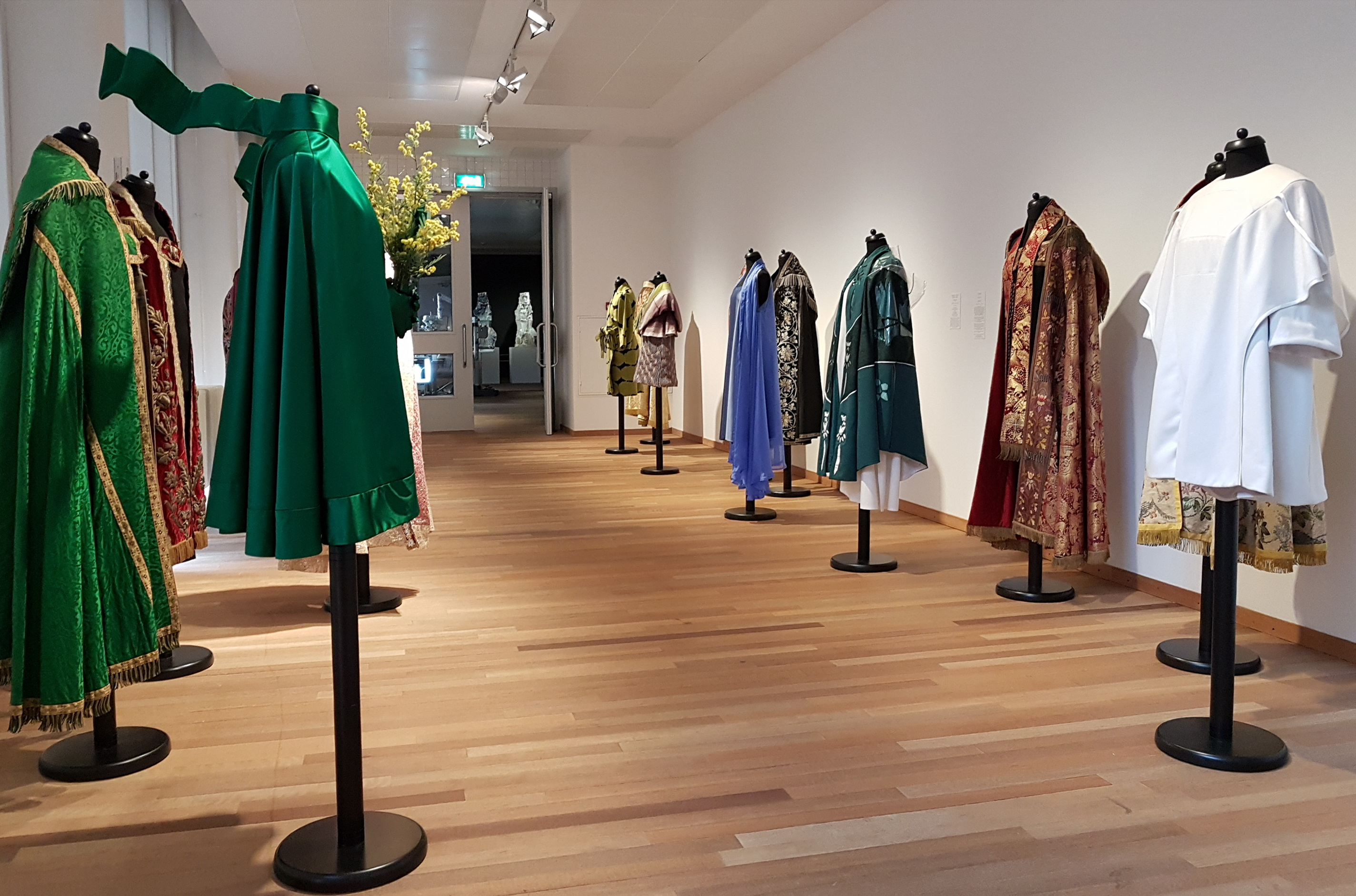 Temporary exhibition of liturgical copes in the Bonnefantenmuseum in Maastricht, Netherlands. The exhibition of old and contemporary copes was part of the cultural programme of the 2018 Heiligdomsvaart, a seven-yearly relics pilgrimage dating back to the Middle Ages. The contemporary copes were designed by young fashion designers connected to Fashionclash.